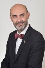 Simone Pillon,Italian politician